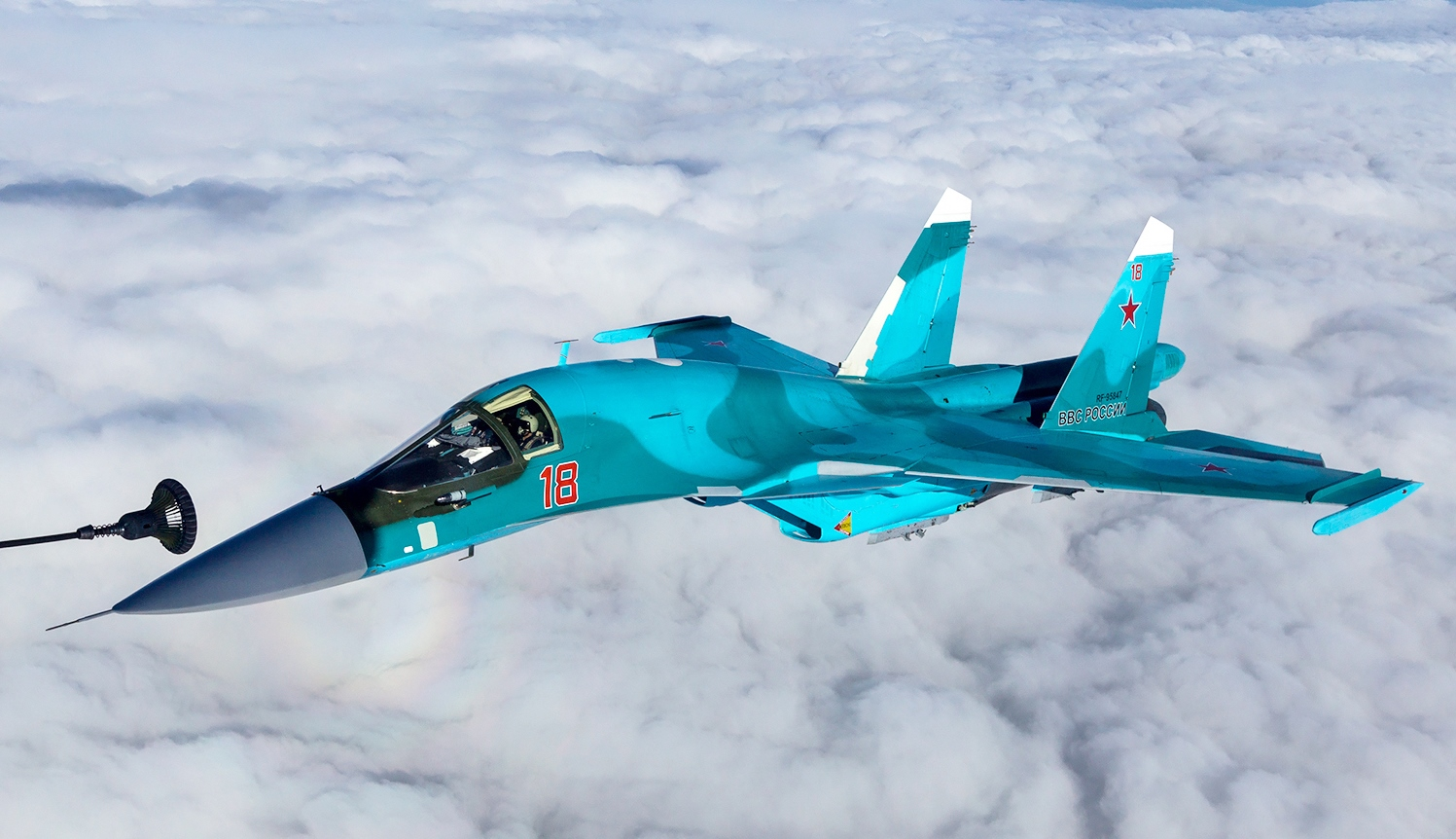 Refuelling a Sukhoi Su-34